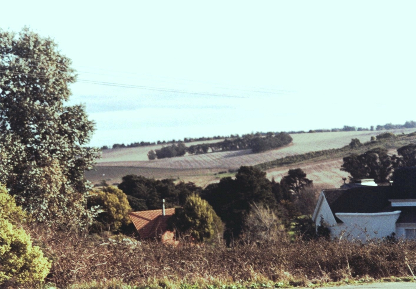 South east boundaries of Sierra de los Padres urban area